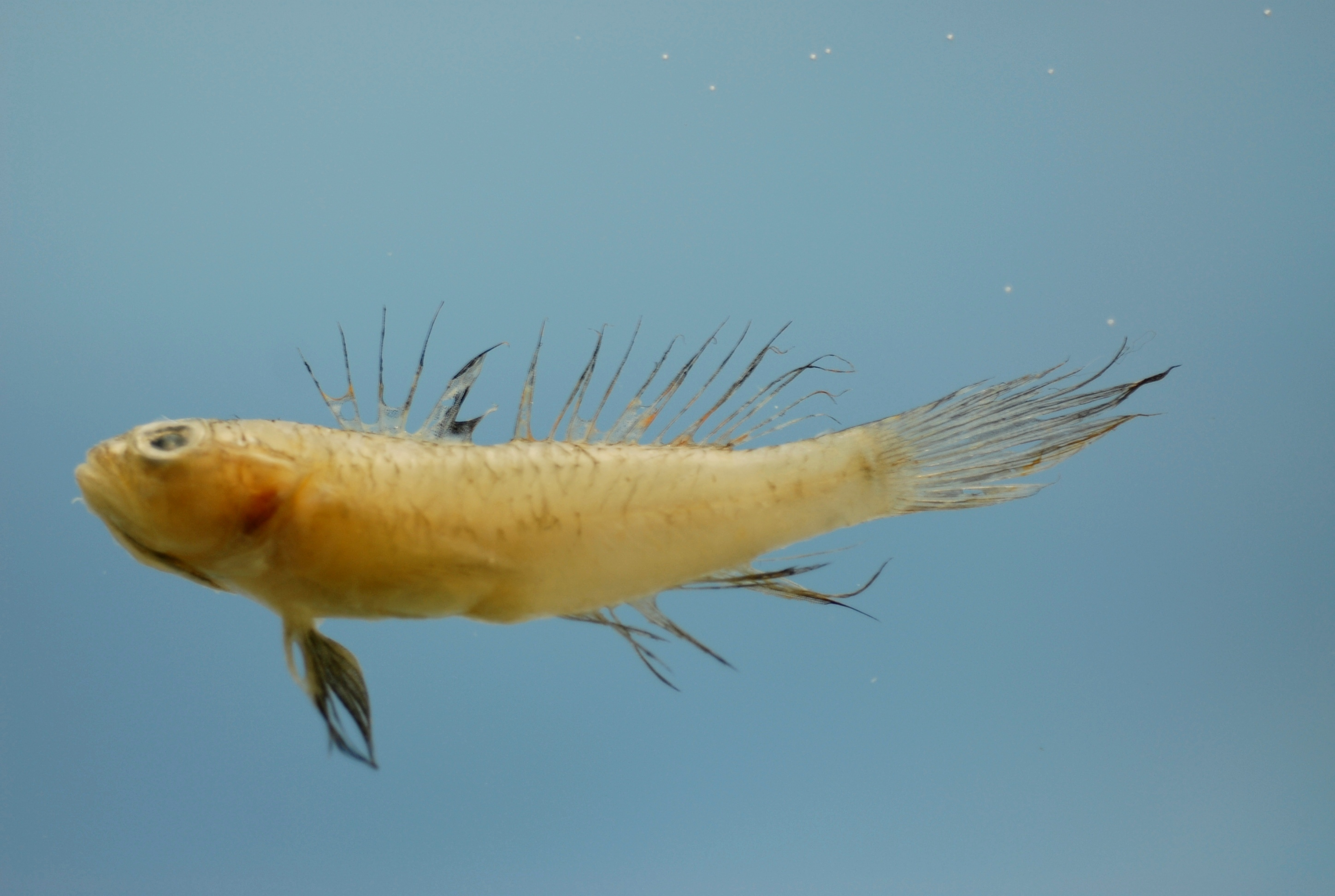 Ragged goby ( Bollmania communis ). Gulf of Mexico.